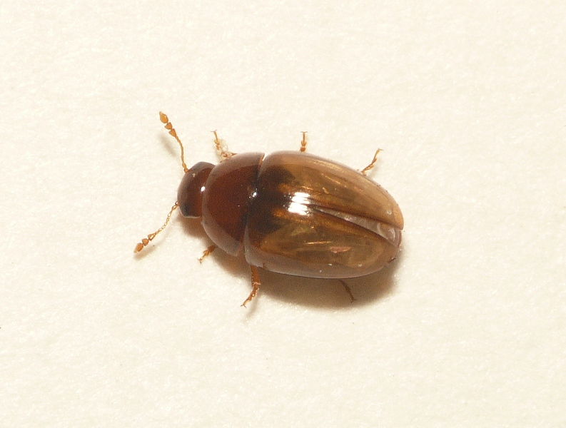 Olibrus corticalis. Location: The Netherlands - Wageningen - Plasserwaard